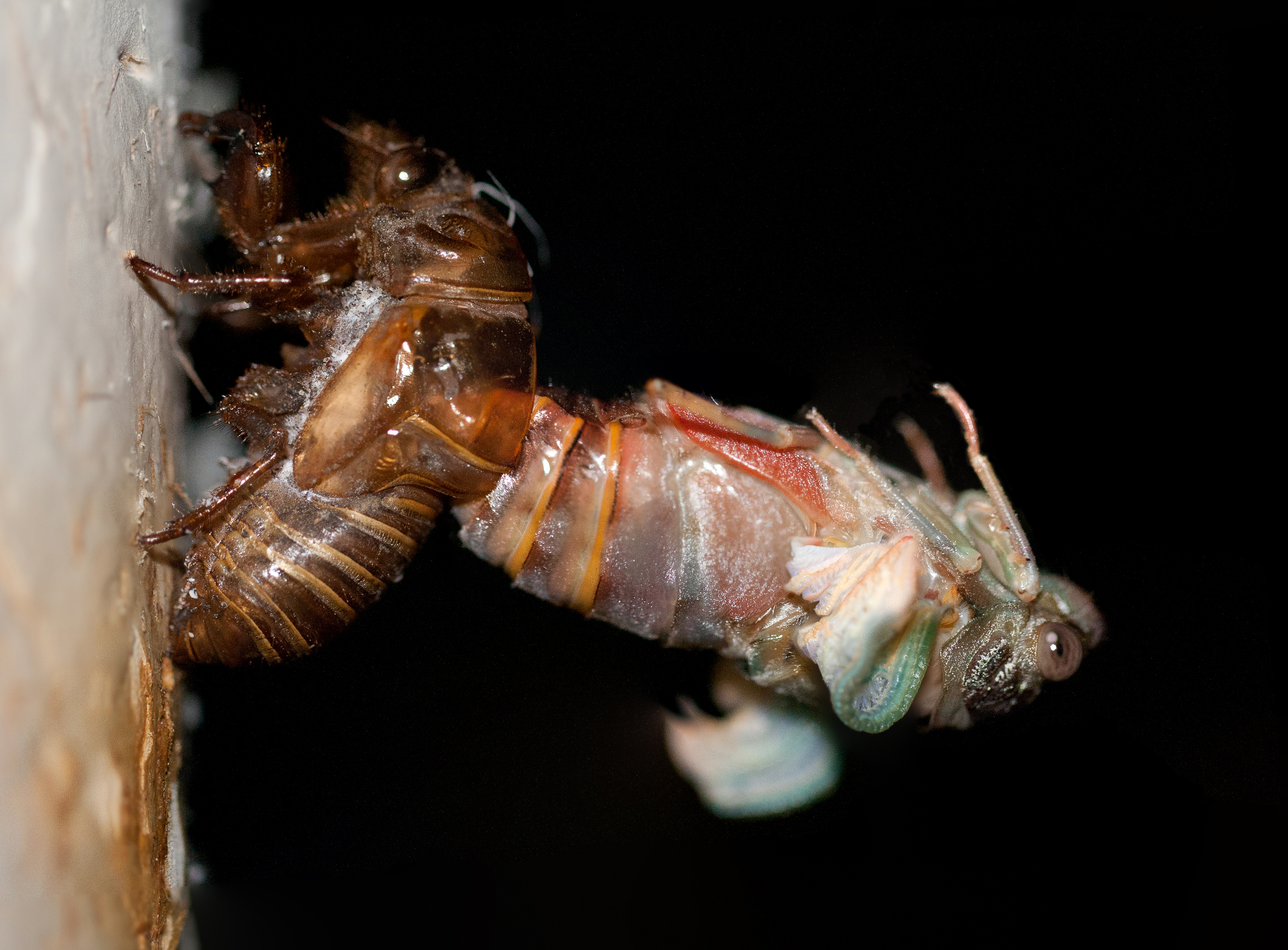 Razor grinder cicada Henicopsaltria Eydouxii